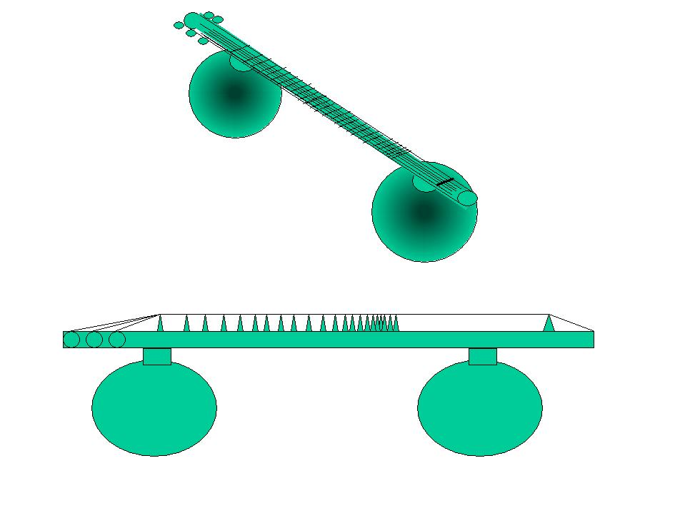 Indian ancient musical instrument rudra vina. Zman 18:23, 18 May 2006 (UTC)